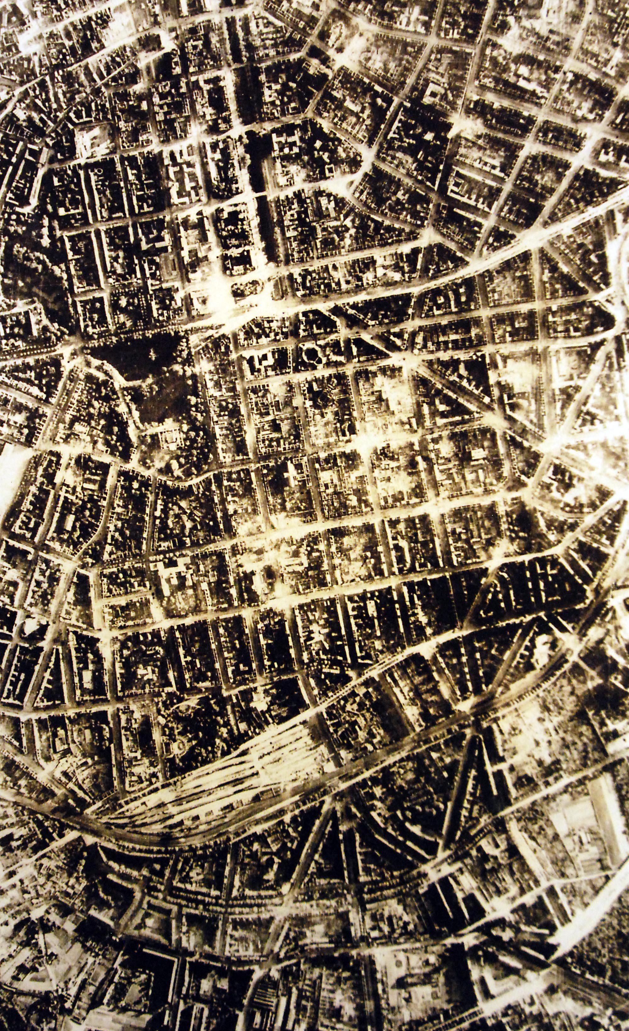 Lot 11635-4: Allied Air Raids on Europe, WWII.German industrial city of Dusseldorf, Germany, after one week of heavy Royal Air Force raid of June 11, 1943. Some fires were still smoldering in the heart of the city and about 1,500 acres were seen to be devastated by high explosives. These areas are the white patches on the photograph. The wooden area at left center is the Hofgaeten. Office of War Information. Courtesy of the Library of Congress. (2016/06/24).